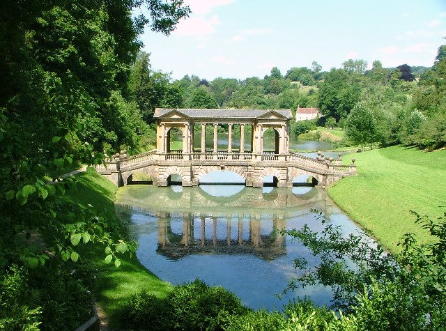 The Palladian Bridge, Prior Park Garden, Bath Beautifully restored by the National Trust